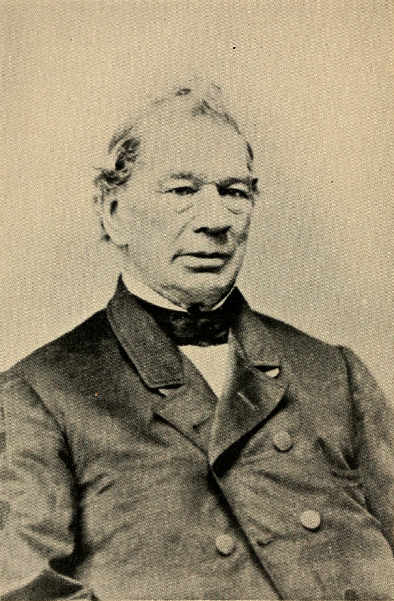 James Wilson (1797 1881) (New Hampshire Congressman)